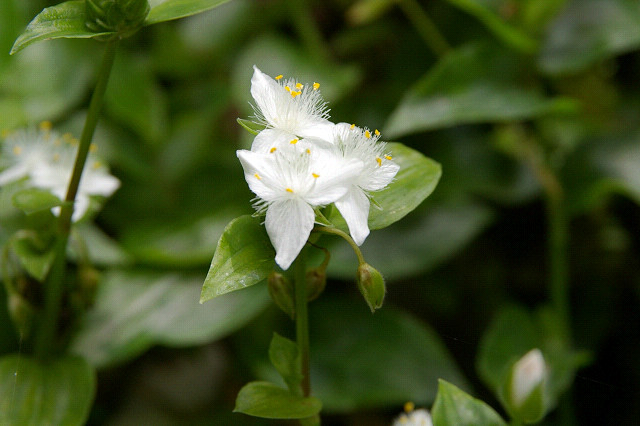 Tradescantia fluminensis (Ito-city, Shizuoka, Japan)